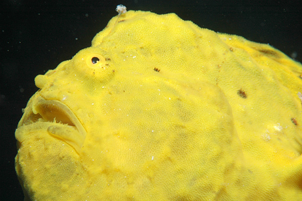 Close-up of a Long-lure Frogfish (Antennarius multiocellatus), Bonaire, Dutch Antilles. Image taken by Clark Anderson/Aquaimages.